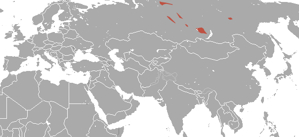 Turuchan Pika (Ochotona turuchanensis) range